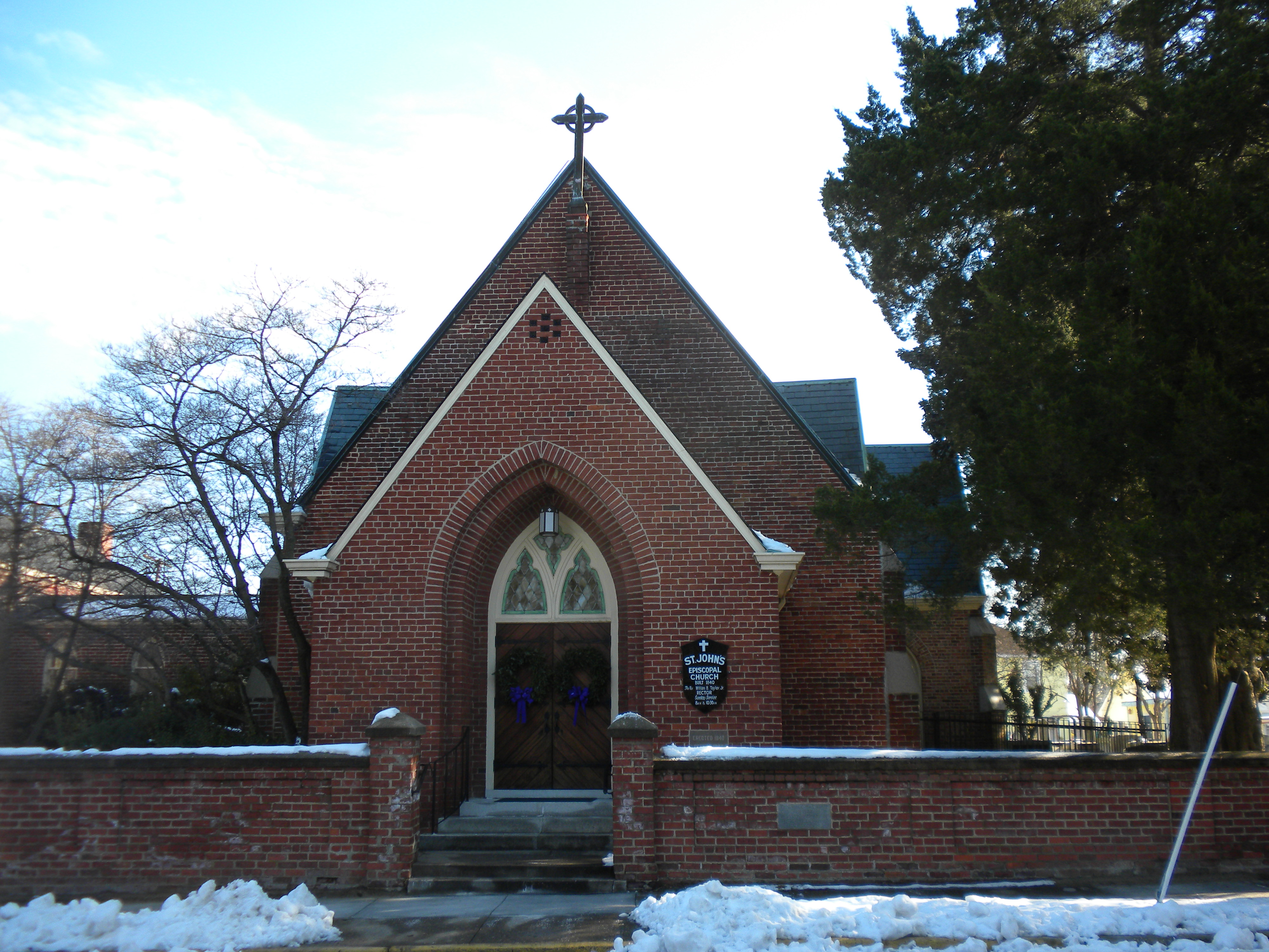 St. John's Episcopal Church in City Point, VA (now Hopewell, VA). Part of the City Point Open Air Museum. I donate this photo to the public domain.